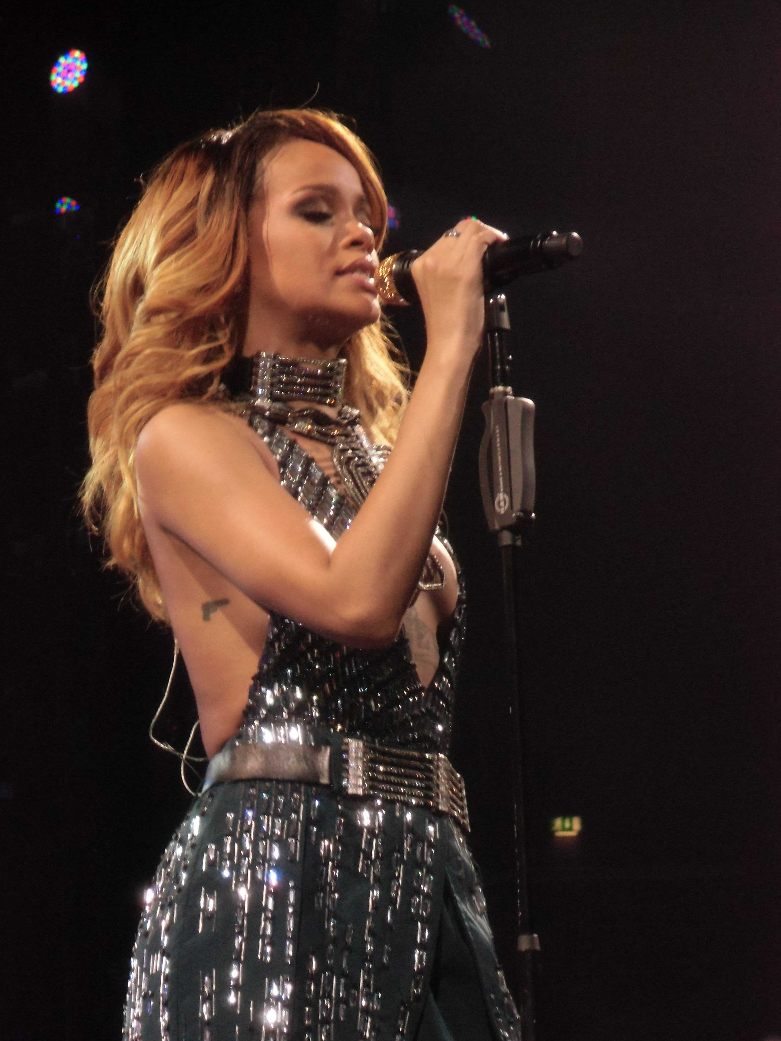 Rihanna performing at her Diamonds World Tour in Cologne on June 26, 2013.